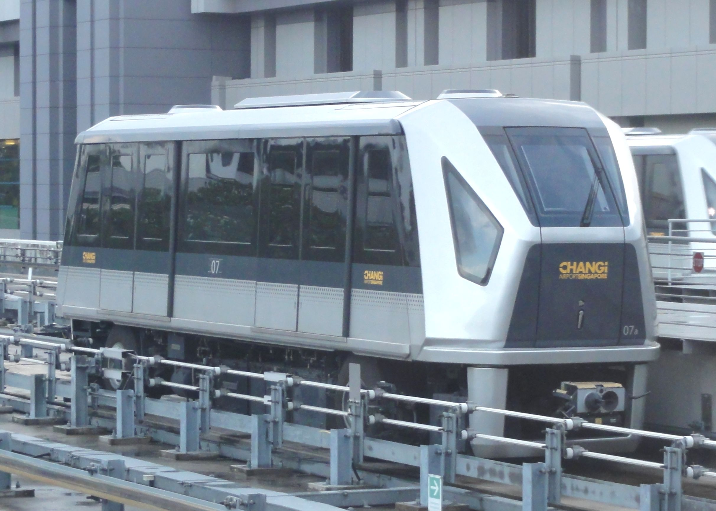 Changi Airport Skytrain